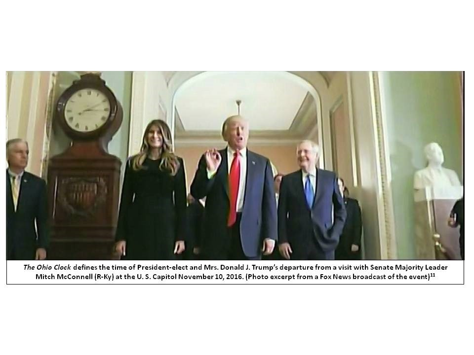 The Ohio Clock defines the time of President-elect and Mrs. Donald J. Trump’s departure from a visit with Senate Majority Leader Mitch McConnell (R-Ky) at the U. S. Capitol November 10, 2016. (Photo excerpt from a Fox News broadcast of the event)